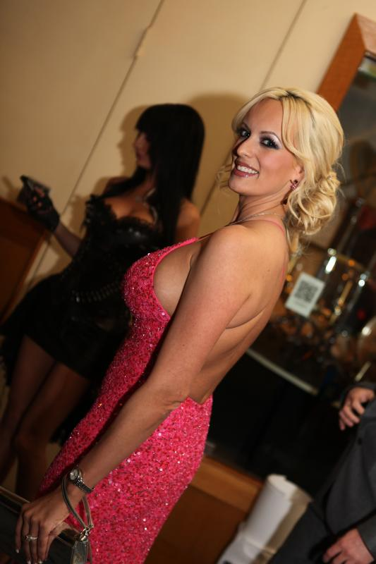 AVN Awards Las Vegas 2012 Photos taken at Hard Rock Hotel & Casino Las Vegas before the show.